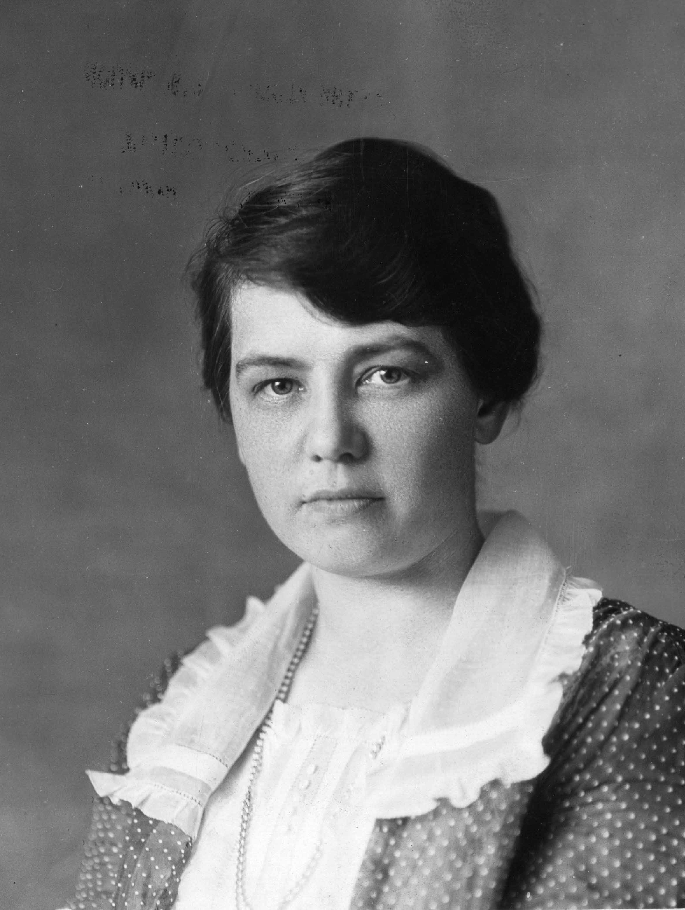 Olive Dennis as a student at Gaucher College, class of 1908